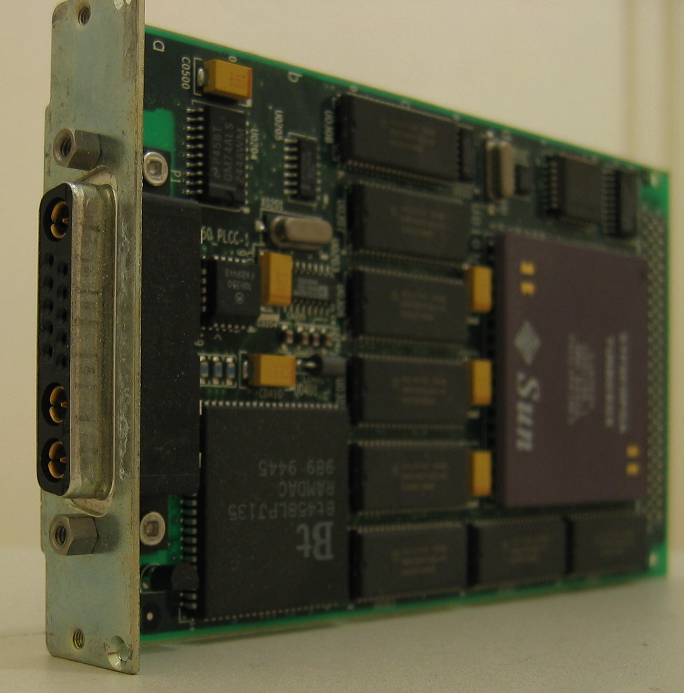 Sun Microsystems framebuffer cgsix (also known as LEGO)